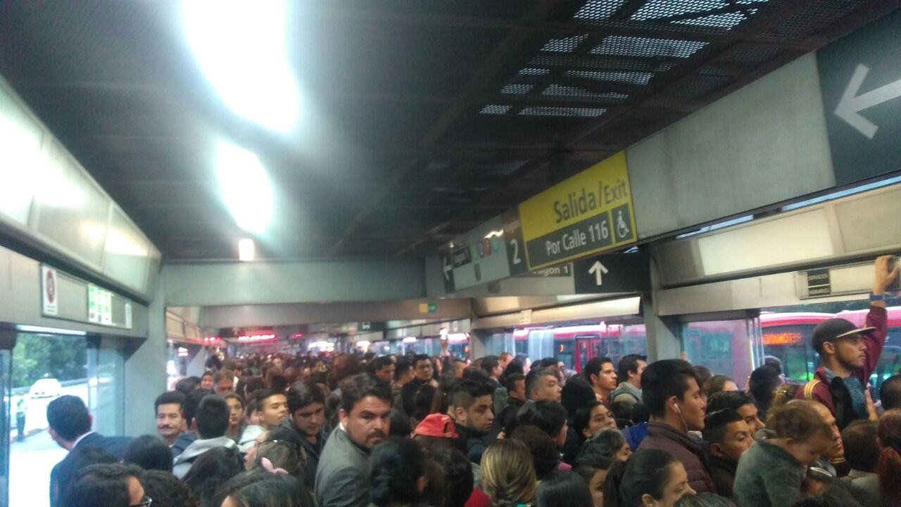 Overcrowded TransMilenio pepe sierra station at rush hour